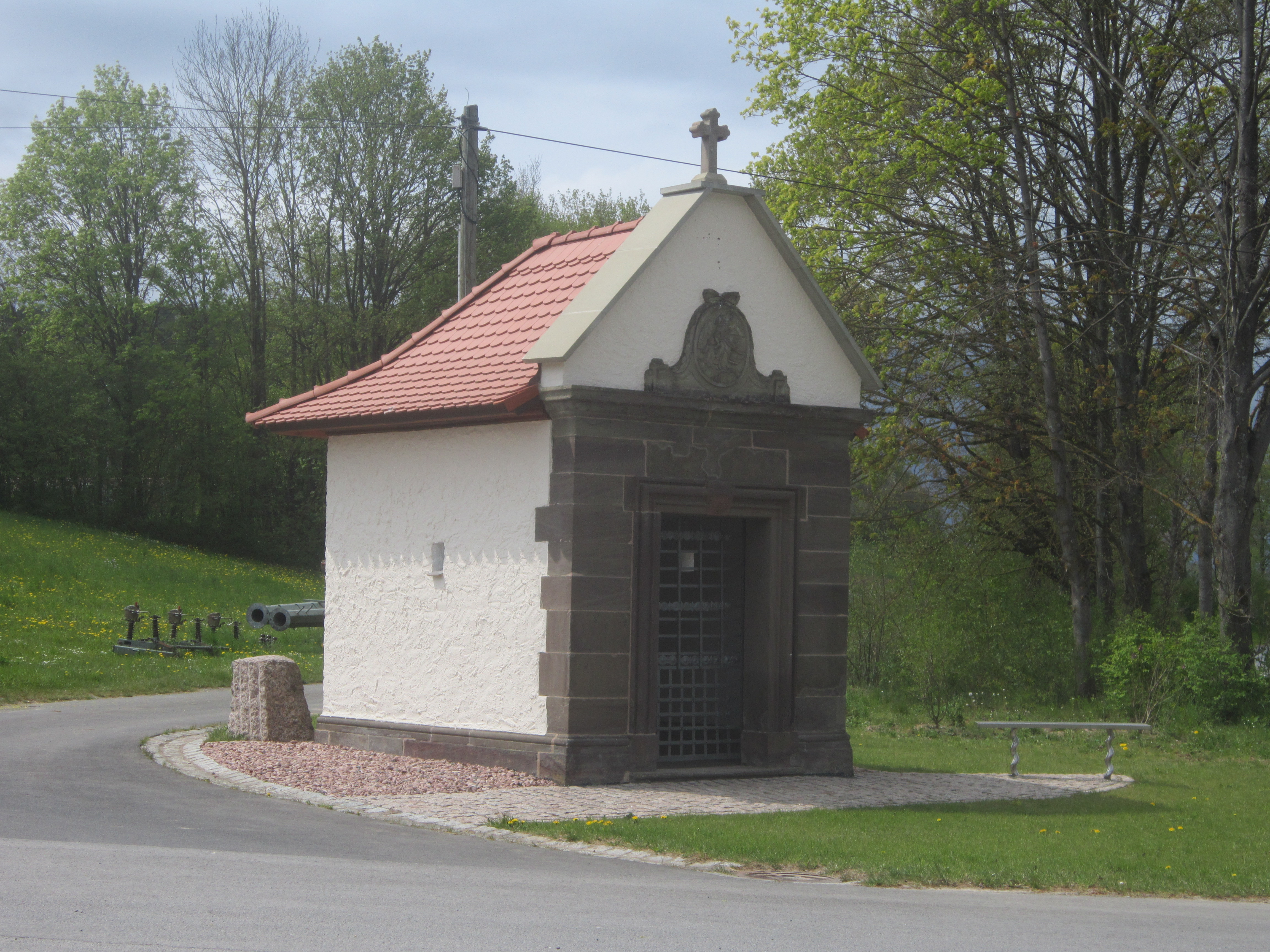 The "Franzosenkapelle" in the German town of Fuchsstadt in Lower Franconia (Bavaria).